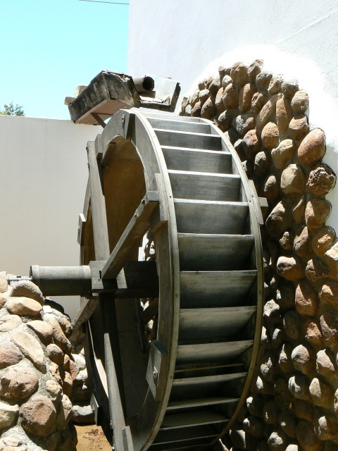 Reinet House, Murray Street, Graaff-Reinet, now a museum complex housing artifacts depicting life in the early years of Graaff-Reinet This media shows a South African Protected Site with SAHRA file reference 9/2/033/0002-575.